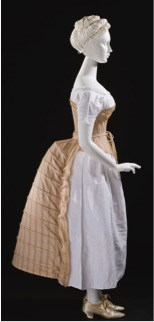 2nd Bustle Era